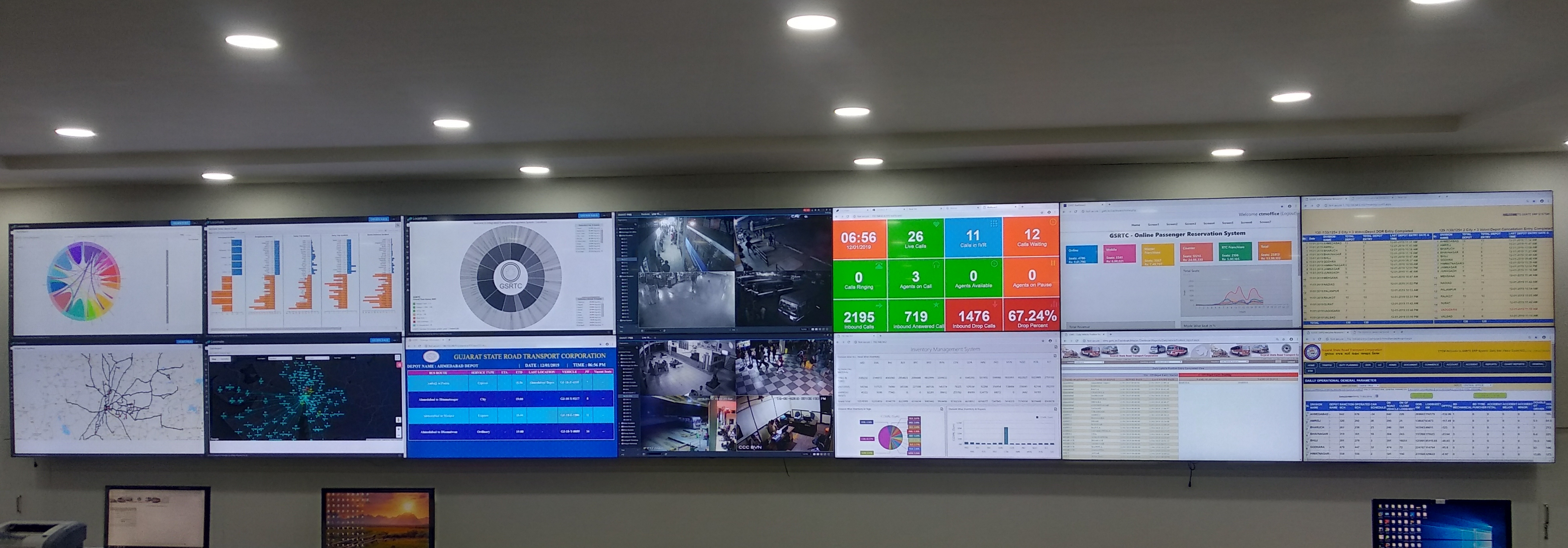 CCC